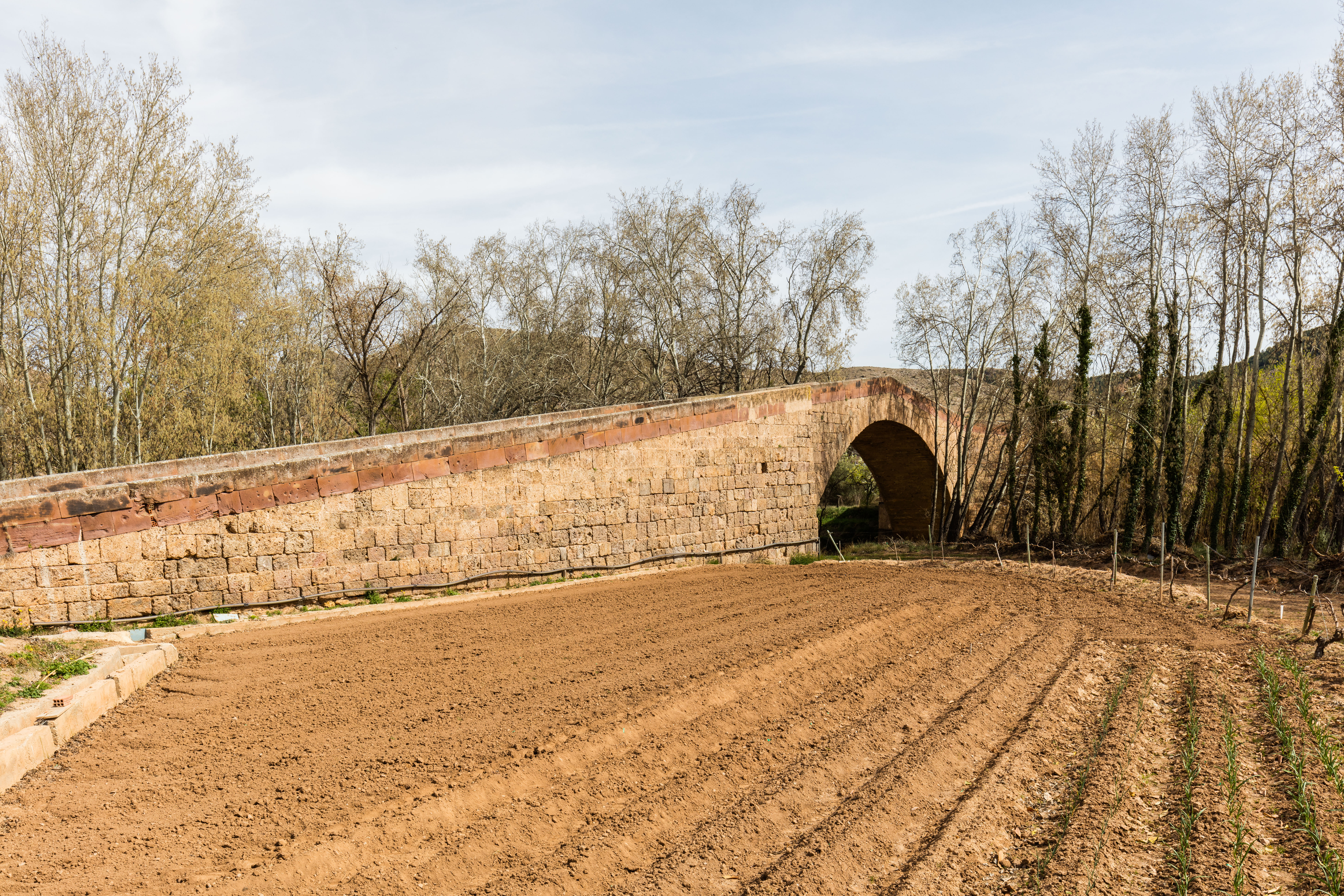 Bridge of Capurnos, Morata de Jalón, Zaragoza, Spain